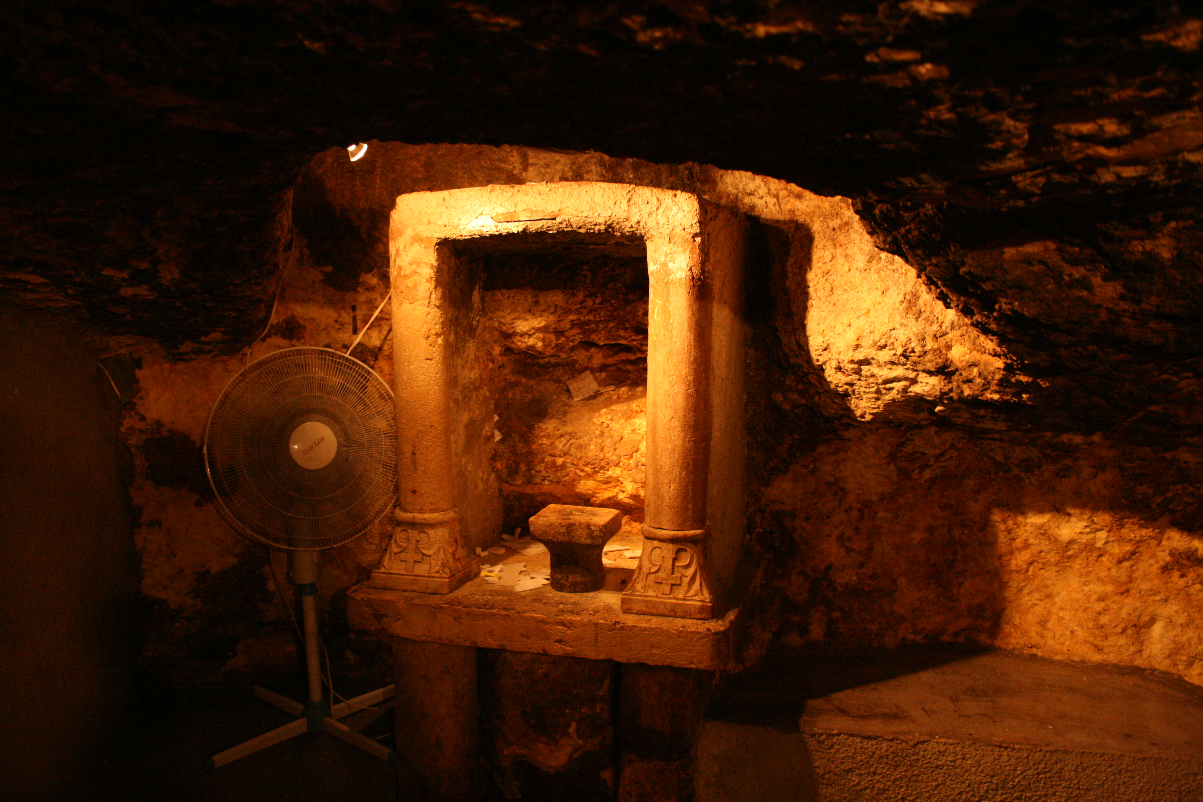 Saint Anne Orthodox Monastery, Jerusalem